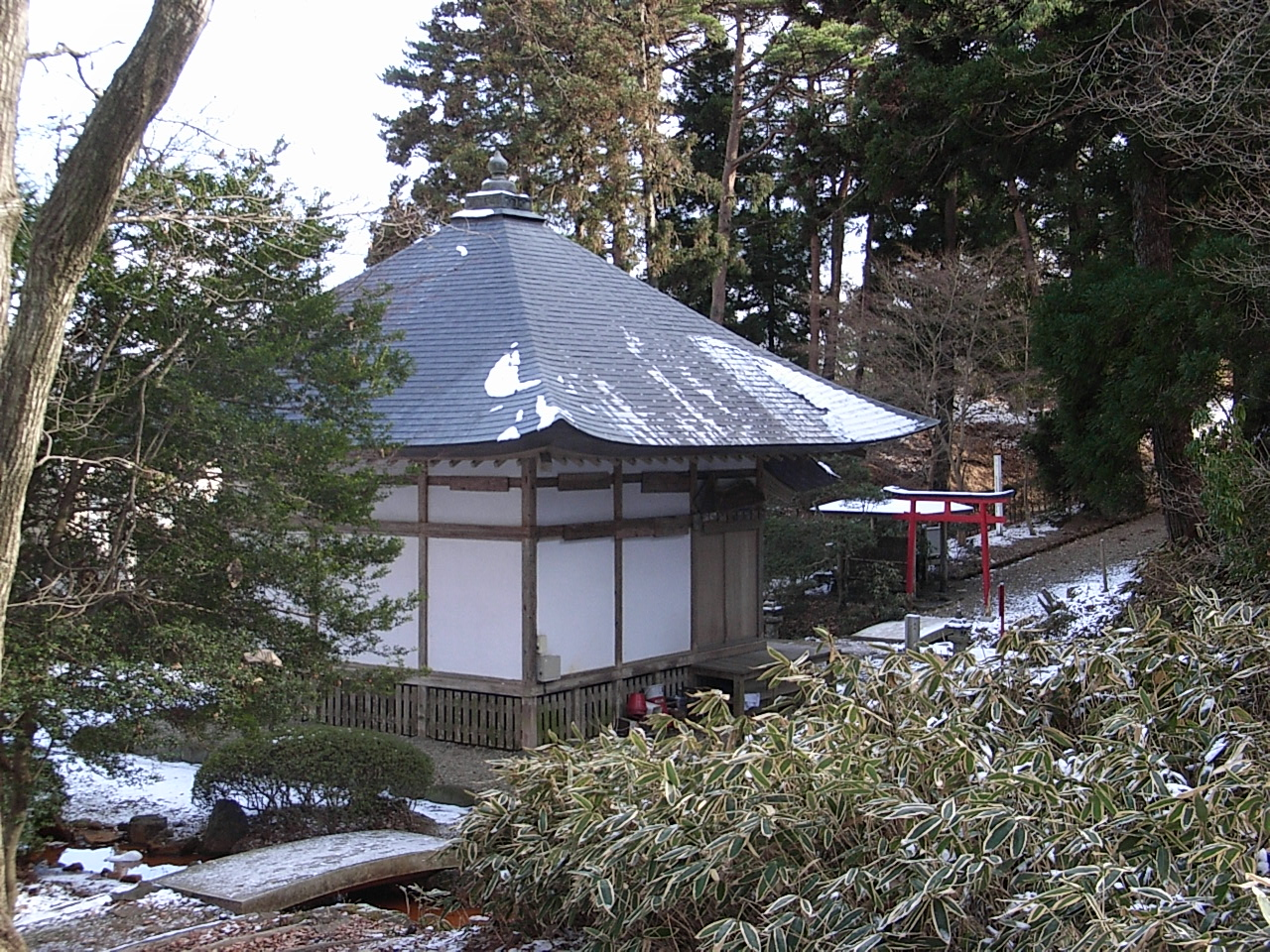 Benzaiten shrine in Rinzai-in Temple. Rinzai-in, Aoba ward, Sendai, Miyagi prefecture, Japan. Southward from the rear.